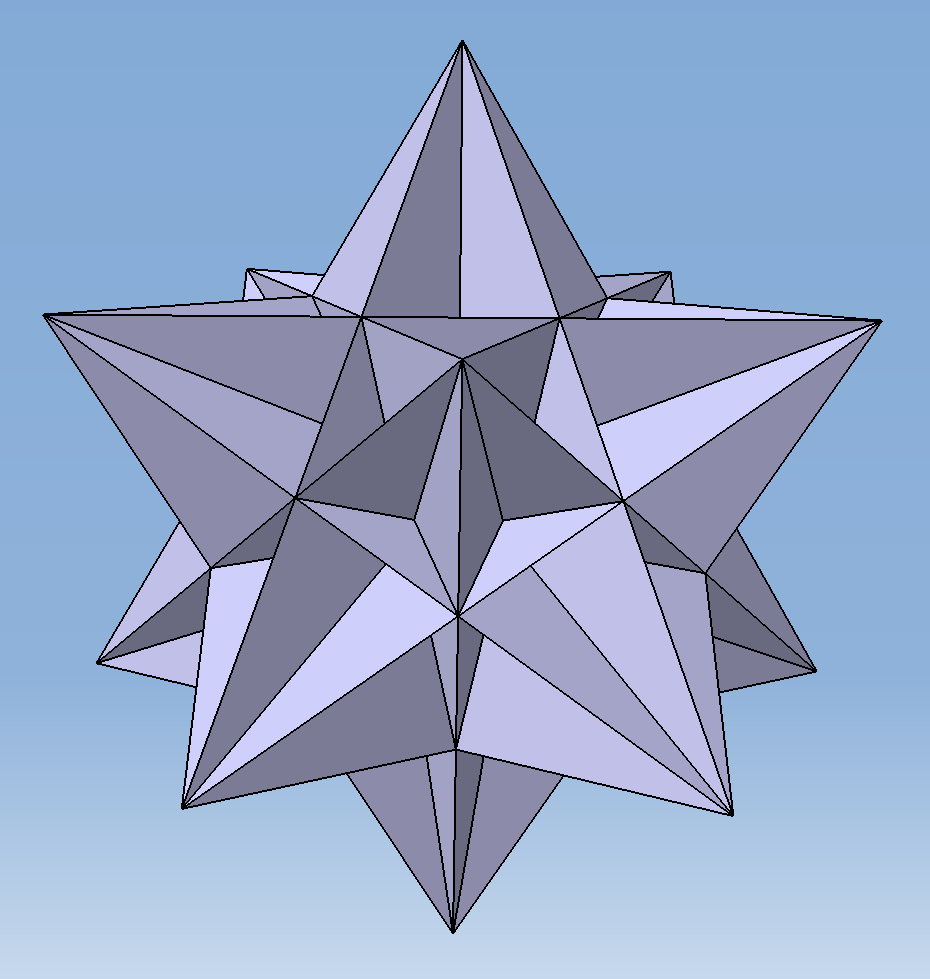 Great icosahedron